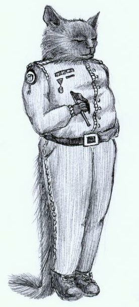 An anthropomorph. Image by Carrie Berman.